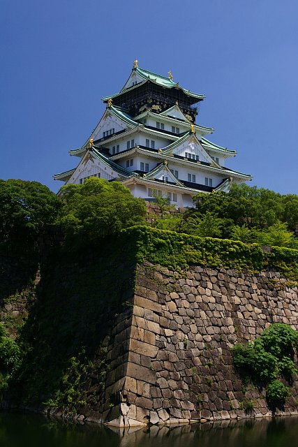 Osaka Castle Keep Tower (north west face), Osaka City, Japan